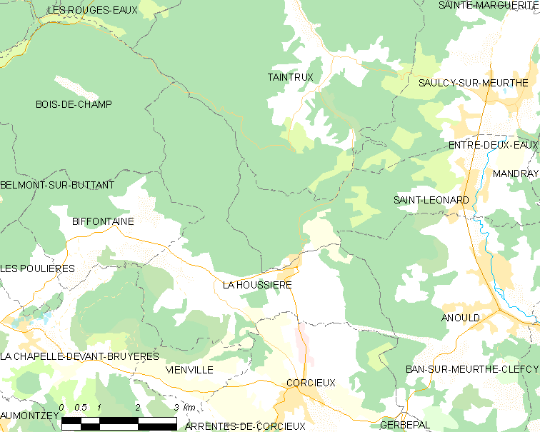 Map of French municipality La Houssière